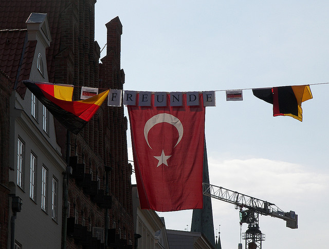 Flags of Germany and Turkey in a German street. The banner 'Freunde' means 'friends' in the German language.